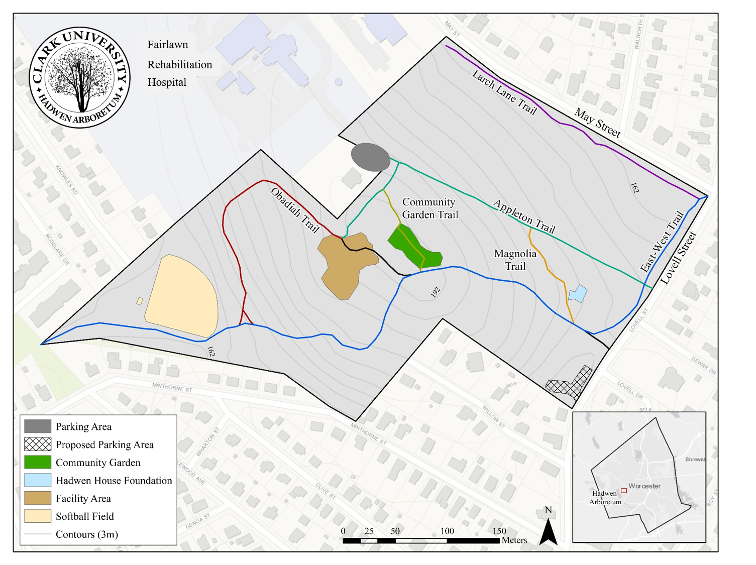 Map of the Arboretum